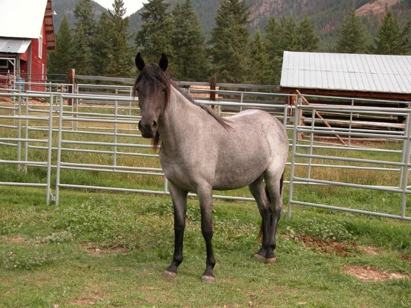 Kentucky Mountain Saddle Horse, 2.5 years, blue-roan